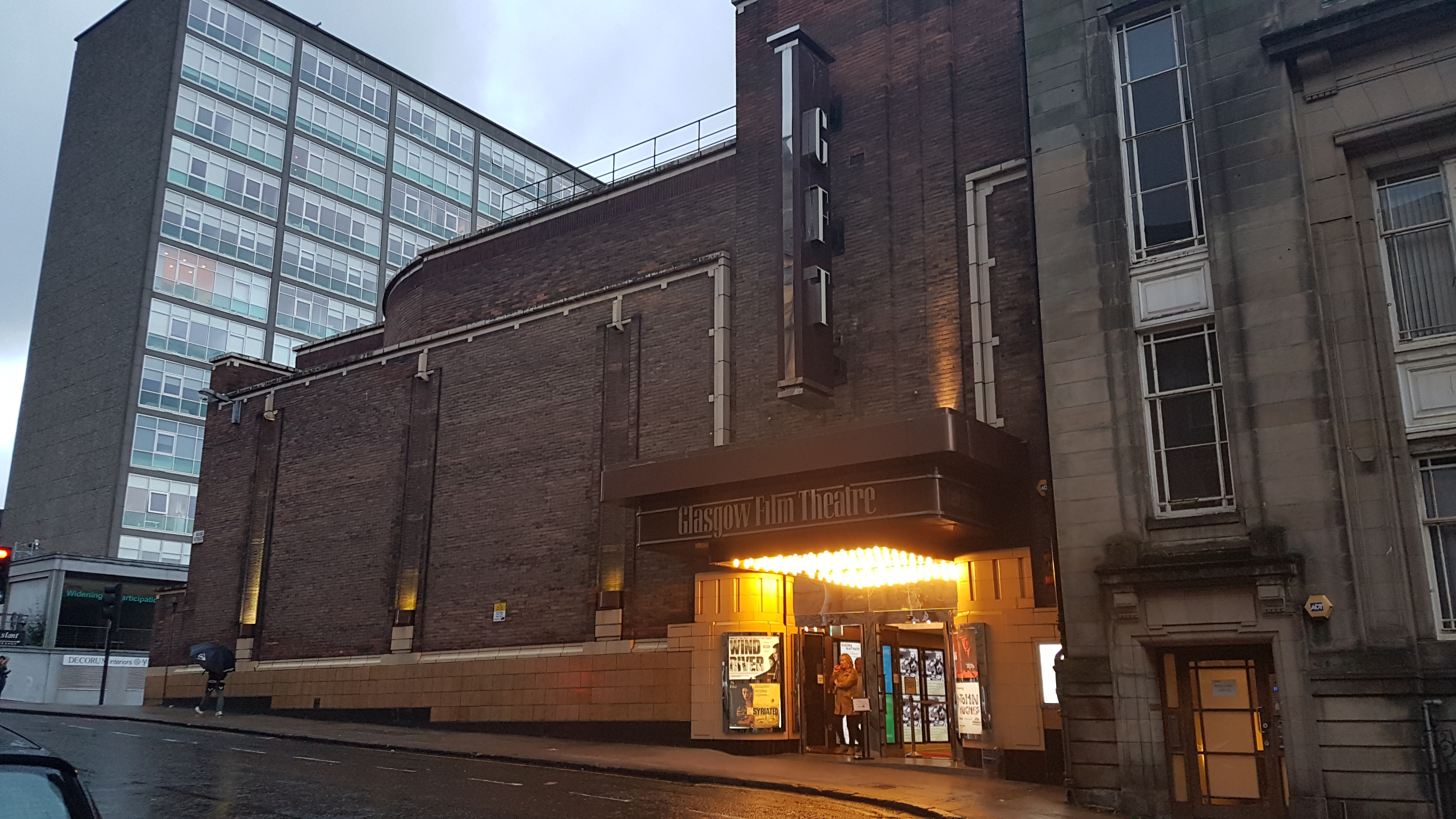 12 Rose Street, Cinema Wikidata has entry Q17807601 with data related to this item.